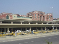 on his memory